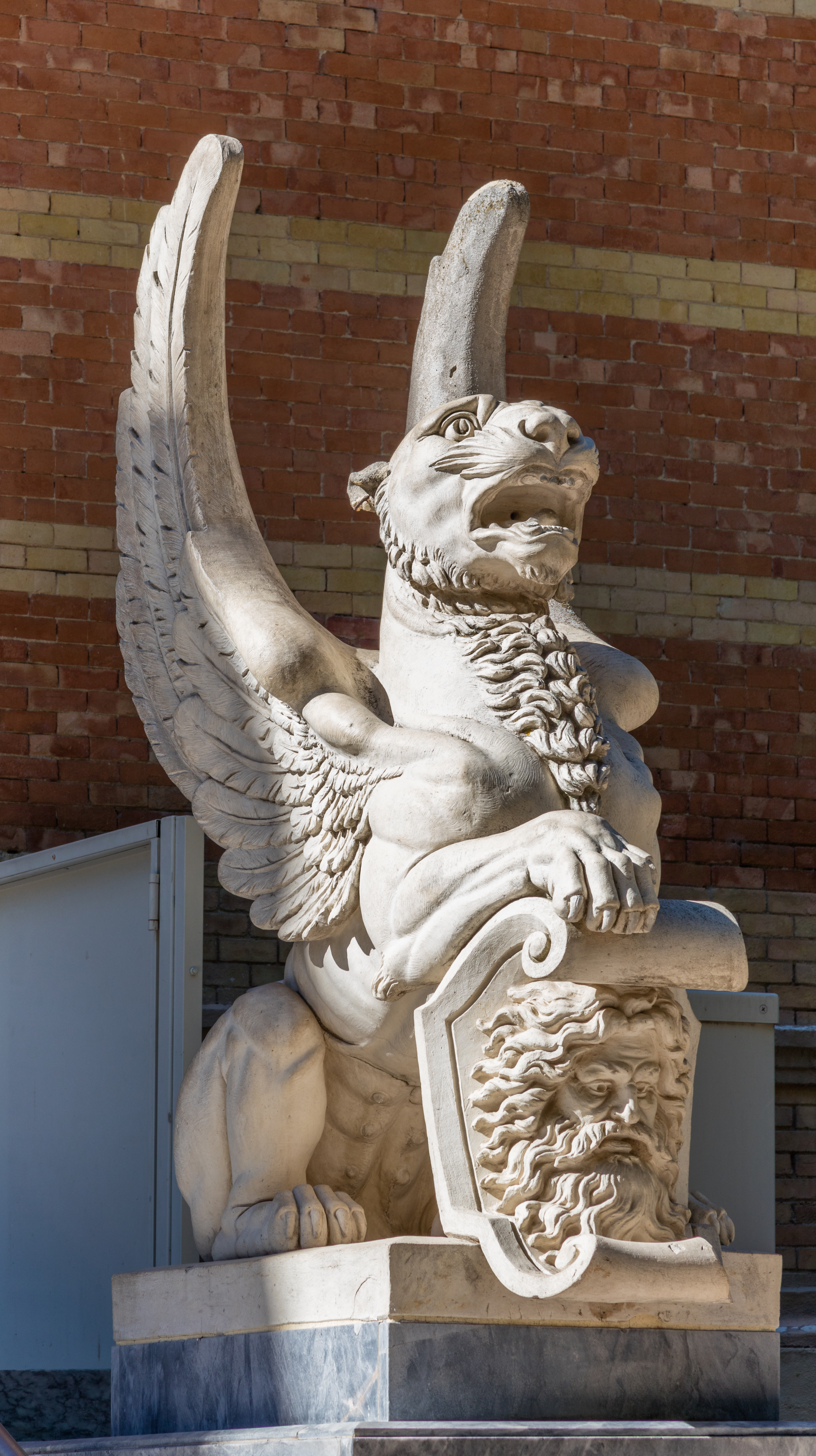 Velázquez Palace, Retiro Park, Madrid, Spain